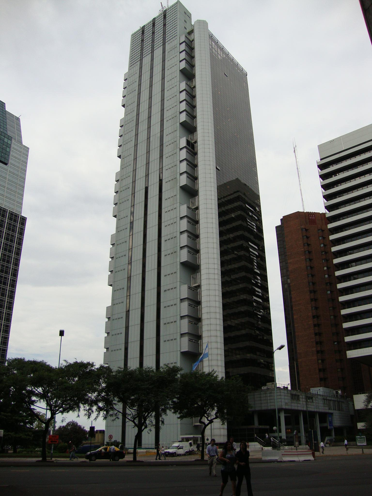 The "Carlos Pellegrini Building", designed for the Argentine Industrial Union in 1968, by architects Manteola, Petchersky, Sánchez Gómez, Santos, Solsona and Viñoly. It was finished in 1974 and was Argentine Industrial Union's (UIA) headquarters until 2001. Catalinas Norte (Retiro), Buenos Aires, Argentina.